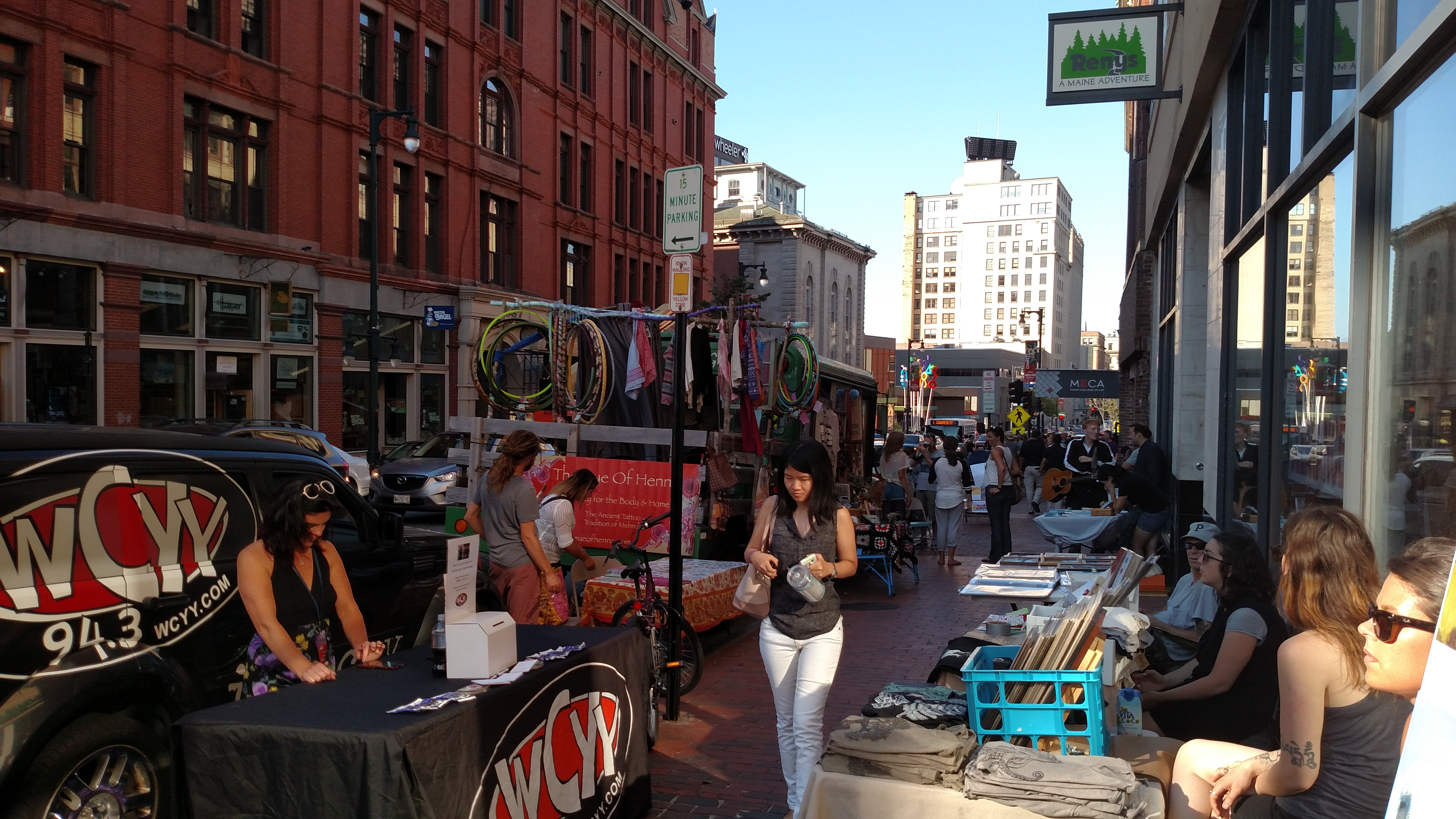 First Friday Art Walk (Arts District)